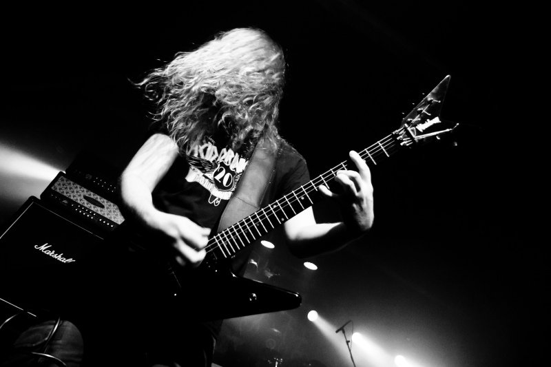 Wacław "Vogg" Kiełtyka of Decapitated Polish death metal band, Kraków, Loch Ness, 14.10.2010